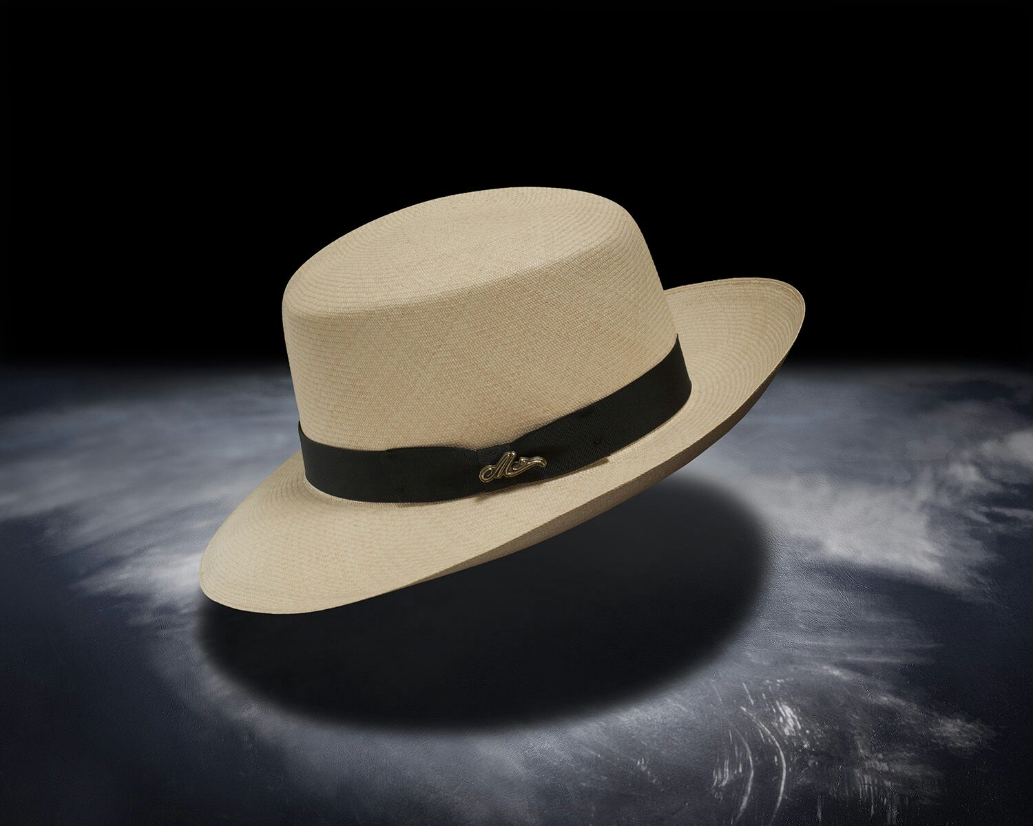 Monticristi Panama Hat Made in Ecuador and Finished in the USA.